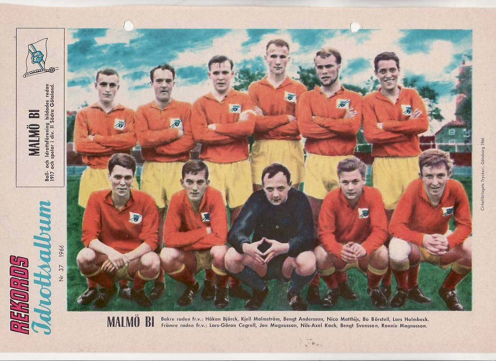 Malmö BI in orange shirts and yellow shorts for several decades was the arch rival of Malmö FF and IFK Malmö (and mother club of Zlatan Ibrahimovic), but after the 1960's they fell from prominence.